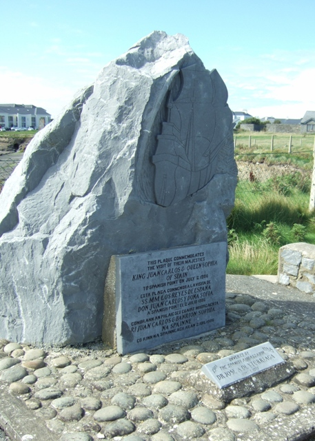 Armada Memorial, Spanish Point. Spanish Point is so called because some of the remnants of the Spanish Armada came to grief there as they tried to get home in 1588. This stone commemorates the visit of the King and Queen of Spain to the site in 1986.